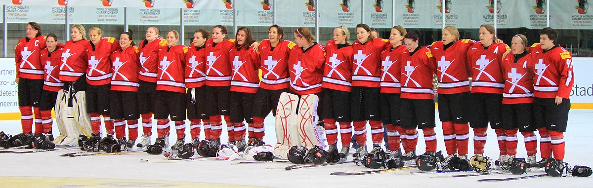 IIHF World Women Championship 2011. Preliminary Round Game Group B. Switzerland - Finland 2-1 OT.